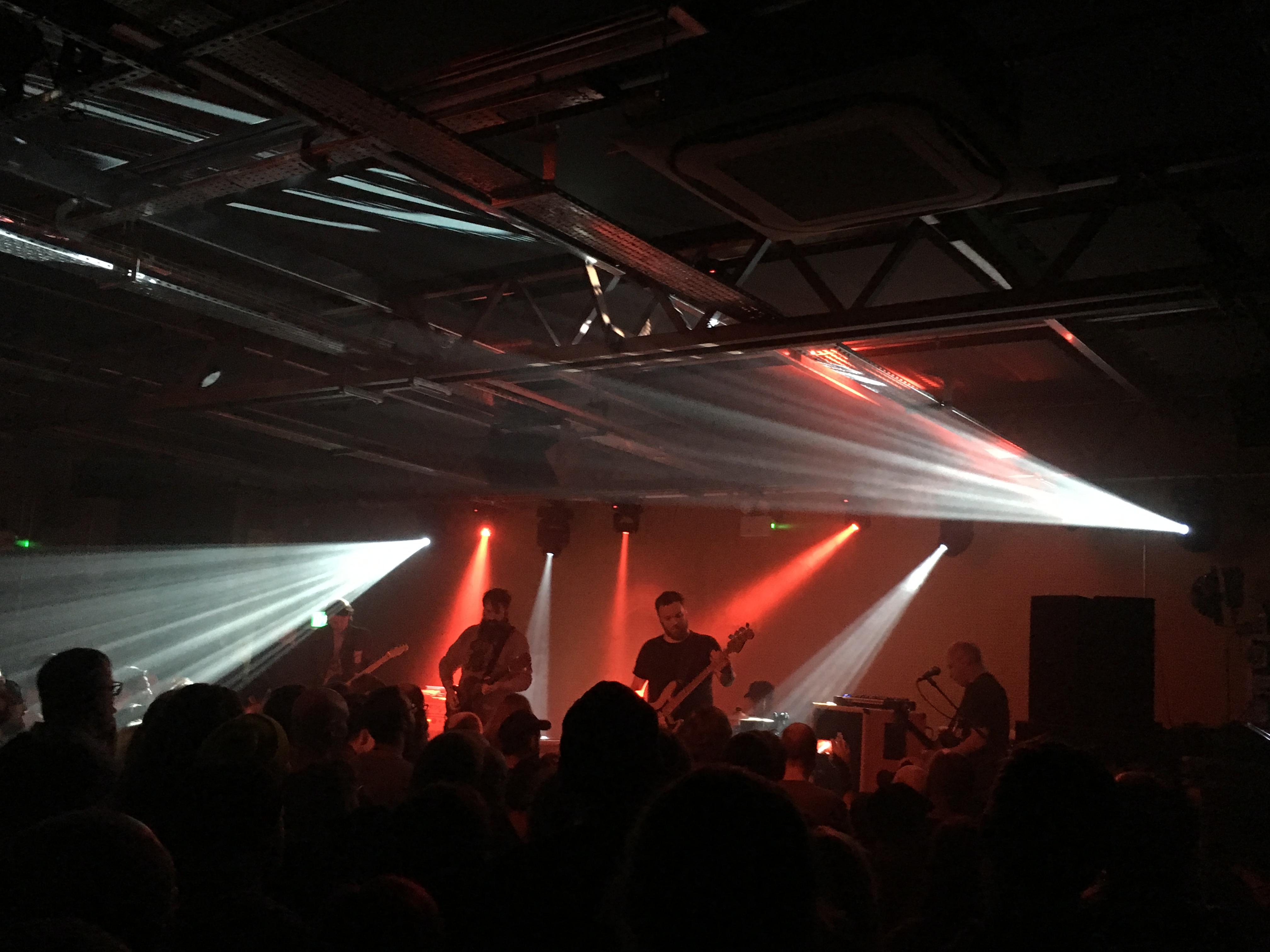 Mogwai performing at Brudenell Social Club, Leeds, UK, September 7th 2017